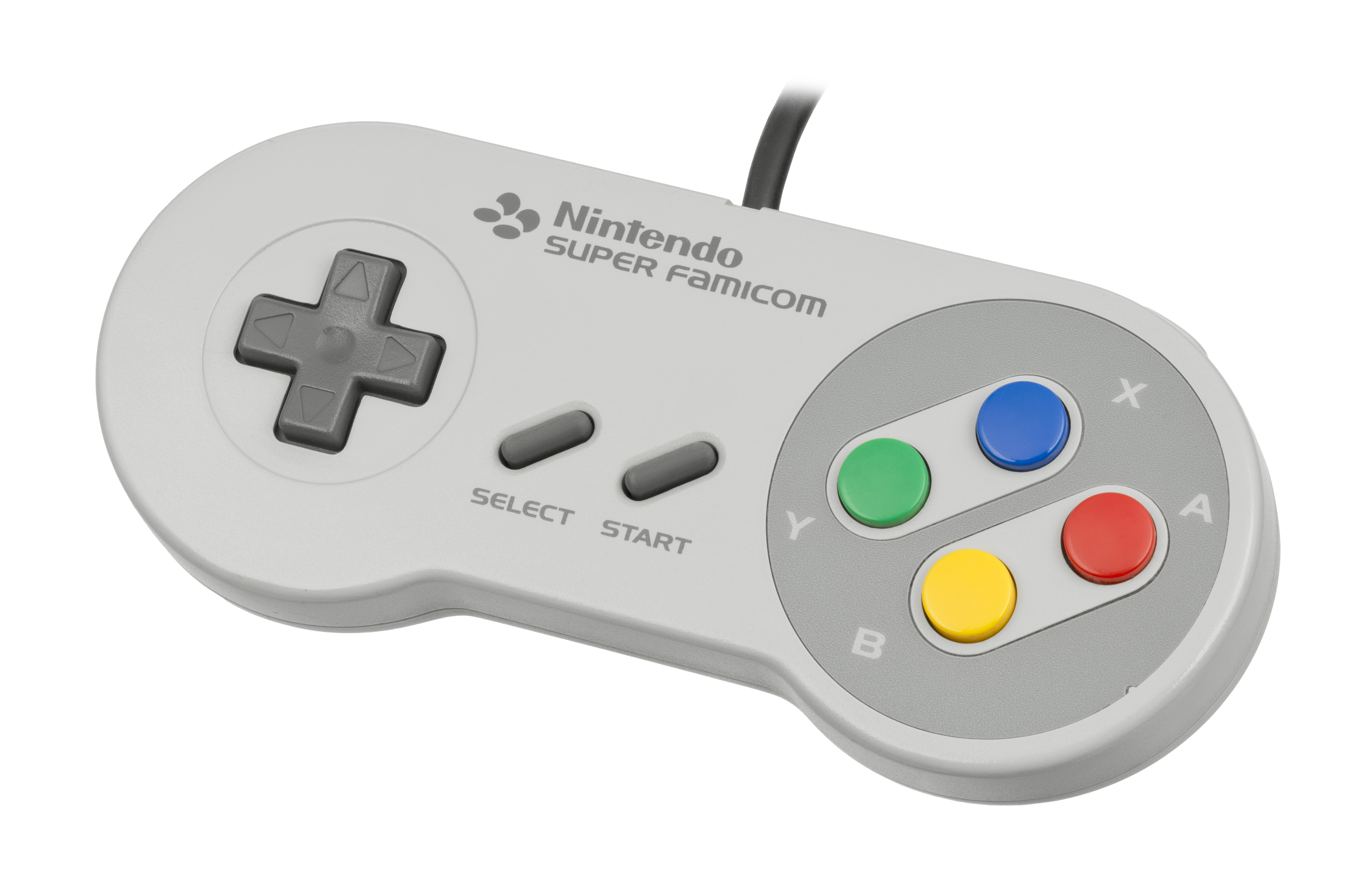 A Japanese Super Famicom controller, made by Nintendo.